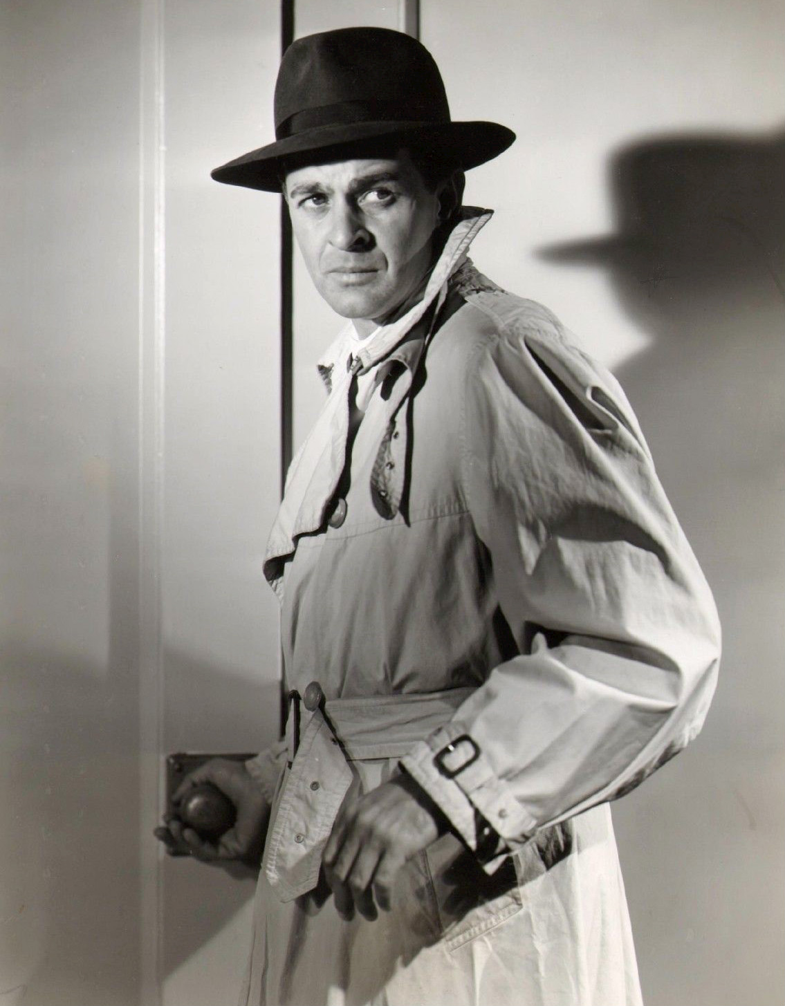 Photo of Stacy Harris in the television program Doorway to Danger. Harris played agent Doug Carter in this spy adventure series.